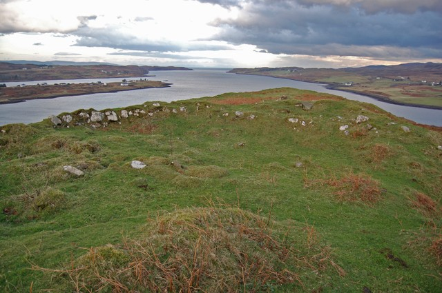 Dun Cruinn An iron age hill fort on the Skerinish Peninsula between Loch Snizort Beag, on the left, and Loch Eyre, on the right.